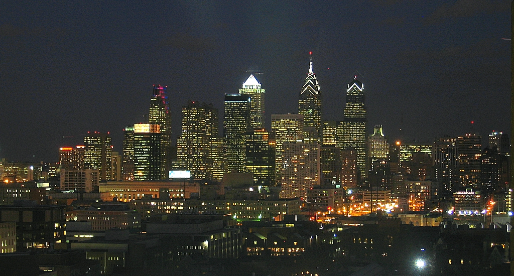 Skyline of Philadelphia, from the University of Pennsylvania campus.